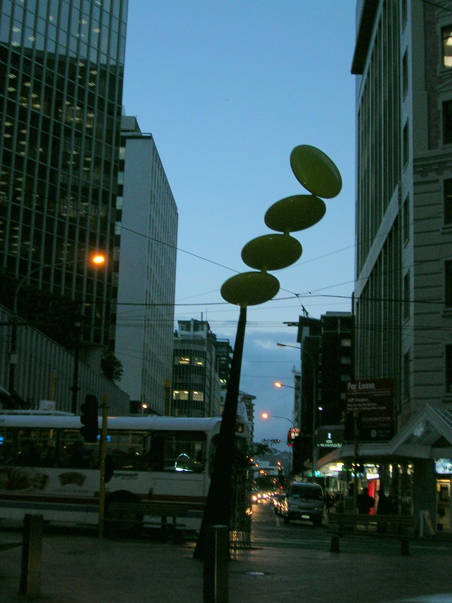 Kinetic sculpture Protoplasm by Phil Price in Wellington/New Zealand.